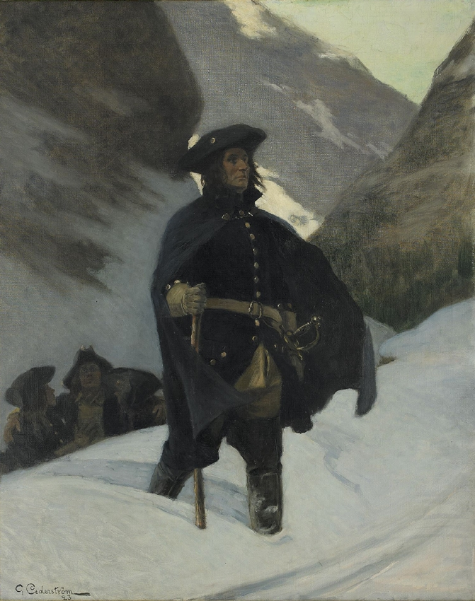 Generallöjtnant Carl Gustaf Armfeldts återtåg (också kallat Armfeldts dödsmarsch) av Gustaf Cederström 1923.